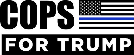 Cops for Trump logo